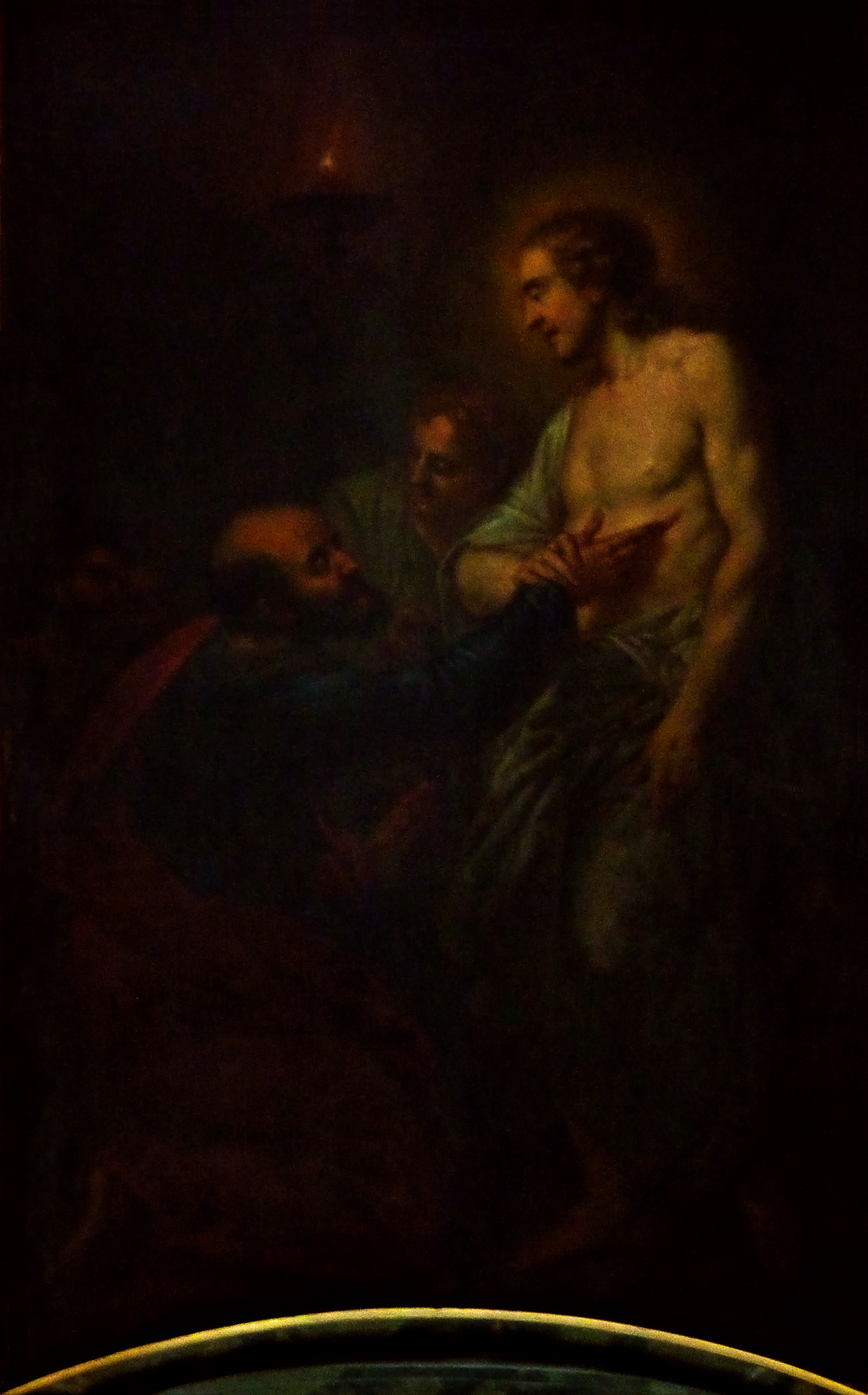 Christ and Doubting Thomas (Bernhard Rode, 1757), altar picture in St. Mary's Church, Berlin